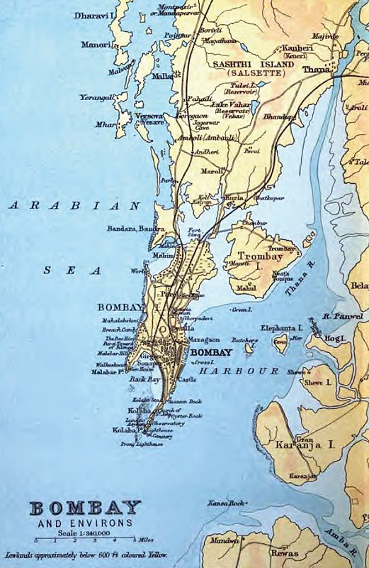 This is an 1893 map of the original islands of Bombay before they were merged to form the present-day geographic entity.